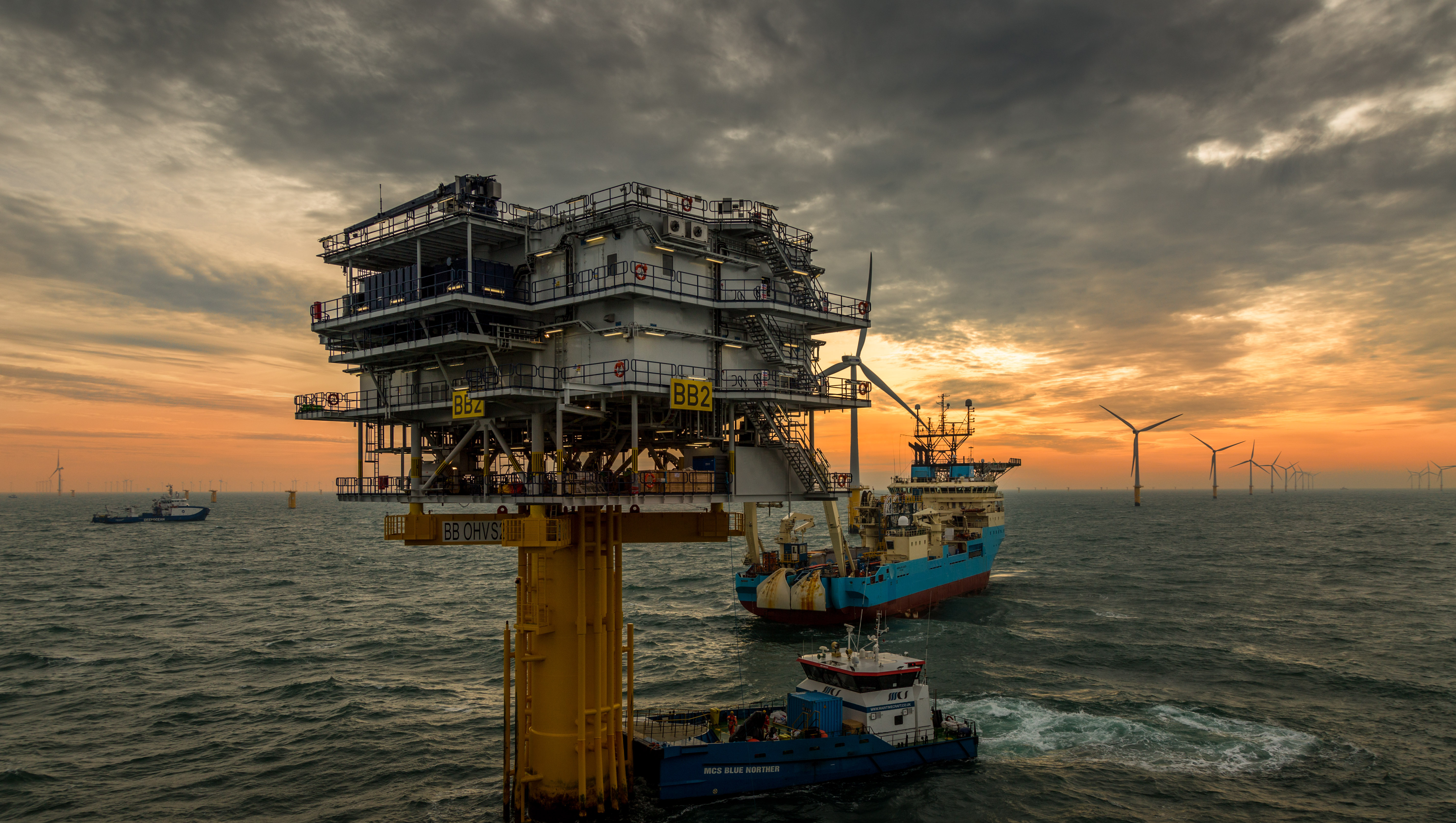 BB2 substation platform (BB OHS2) at Nobelwind offshore wind farm (Bligh Bank Phase II) at Bligh Bank off the Belgian coast; MCS Blue Norther service vessel (front), Mærsk Recorder cable layer, and Deep Helder offshore supply ship (background, left)